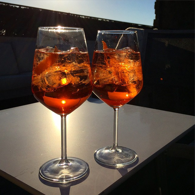 Aperol spritz as the sun goes down